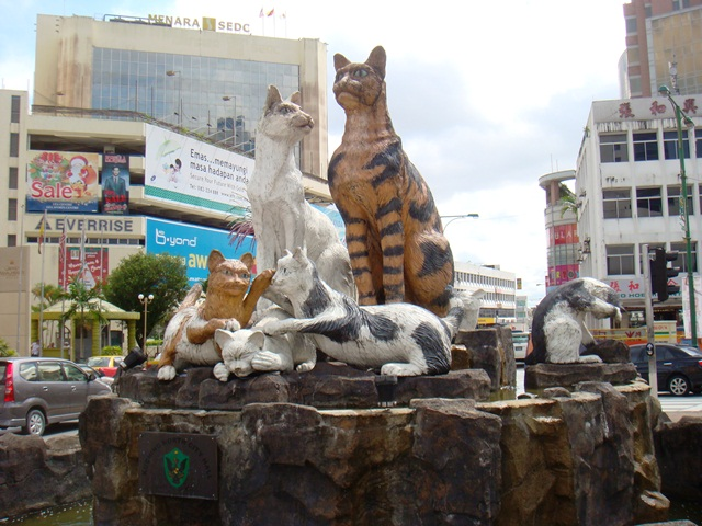 Cat statues at the roadside of downtown Kuching, Kuching.